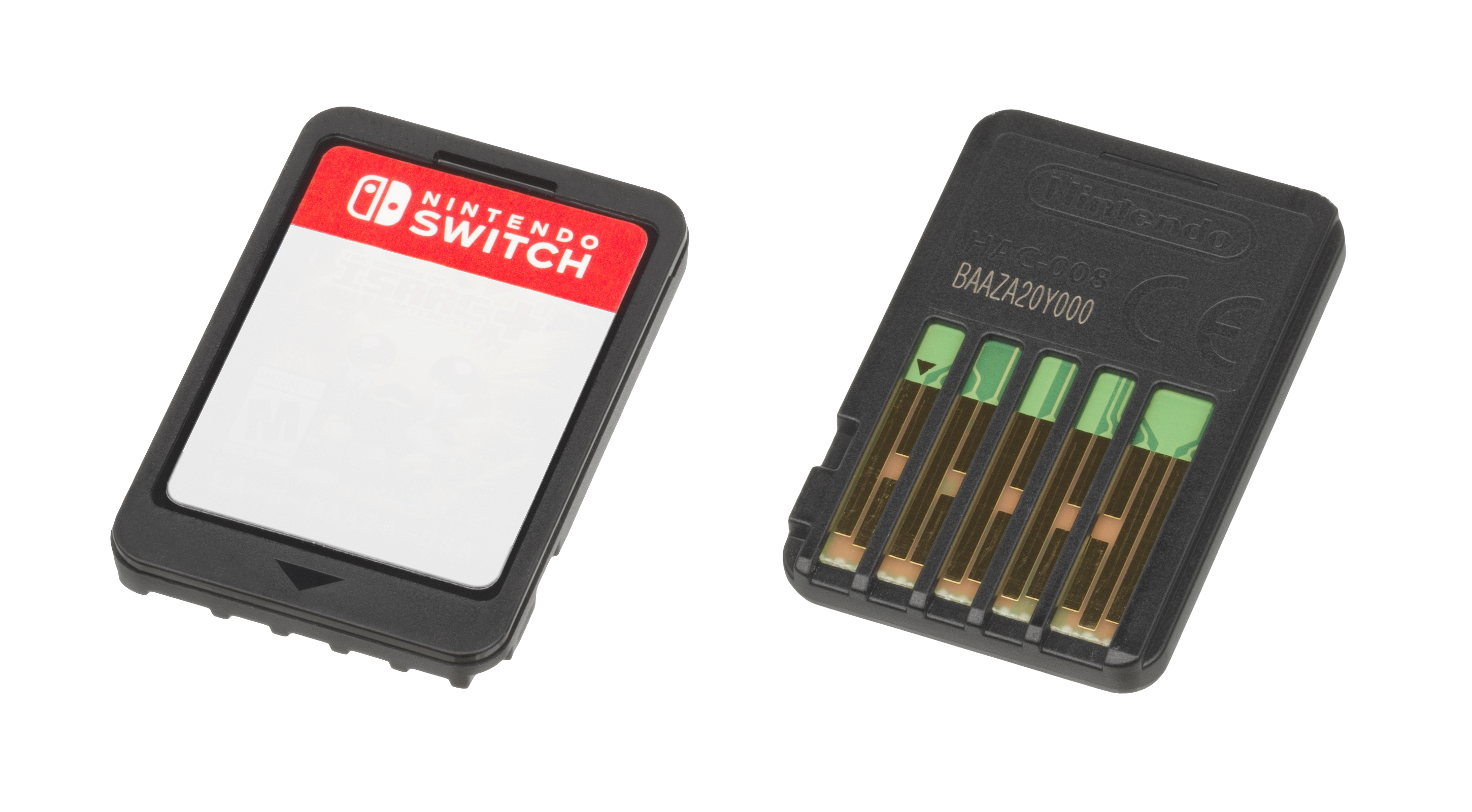 A game cartridge (The Binding of Isaac: Afterbirth+) for the Nintendo Switch, a hybrid portable/home console released by Nintendo in 2017.